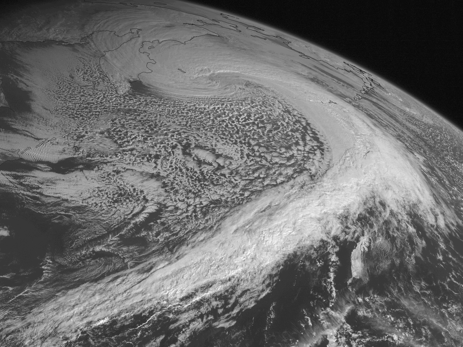 The Japan Meteorological Agency’s MTSAT-2 satellite captured this image of an extremely powerful extratropical cyclone (which absorbed former Typhoon Nuri) over the Bering Sea at 22:32 UTC on November 7, 2014, shortly before its extratropical peak intensity.